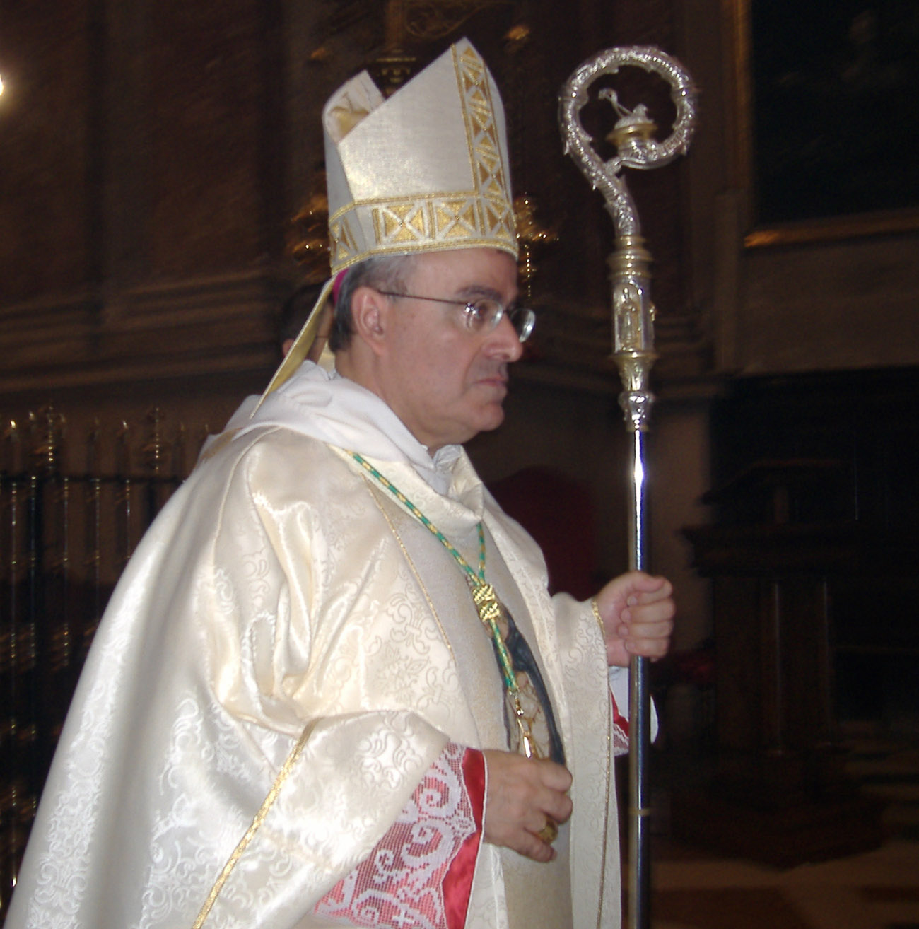 Archbishop Paul Cremona